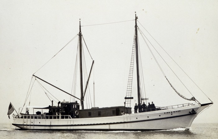 King & Winge 1916 Southeast Alaska. Chartered to USC&GS. Original title: Charter Schooner KING and WINGE. Used with wiredrag party. Image ID: theb0180, NOAA's Fleet Then and Now - Sailing for Science Collection.